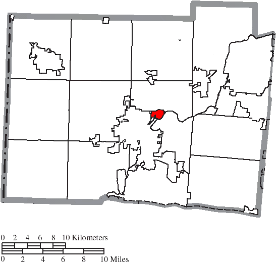 Map of the municipal and township boundaries of Butler County, Ohio, United States, as of the 2000 census, with the location of the village of New Miami highlighted. Township borders are shown only in unincorporated areas in order to differentiate incorporated and unincorporated areas more clearly.